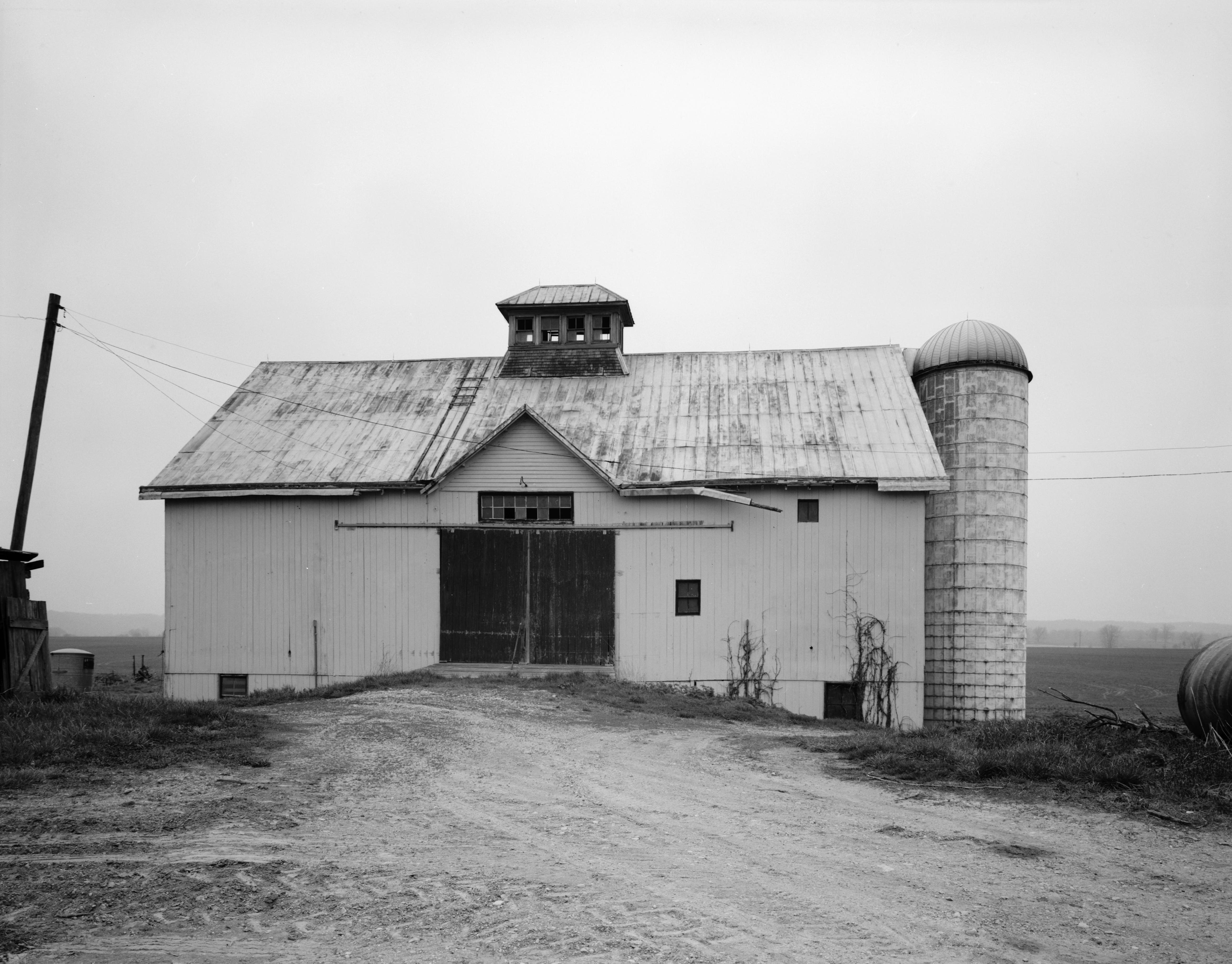 Barn at the Merit-Tandy Farmstead, located along State Road 156 northeast of Patriot in Switzerland County, Indiana, United States. The farm is listed on the National Register of Historic Places. By 2012, the barn had been destroyed.